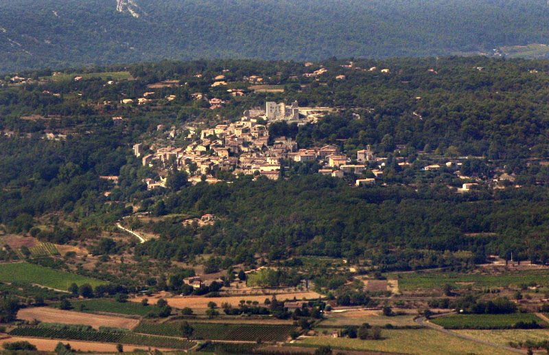 bird view of Lacoste, Vaucluse, France